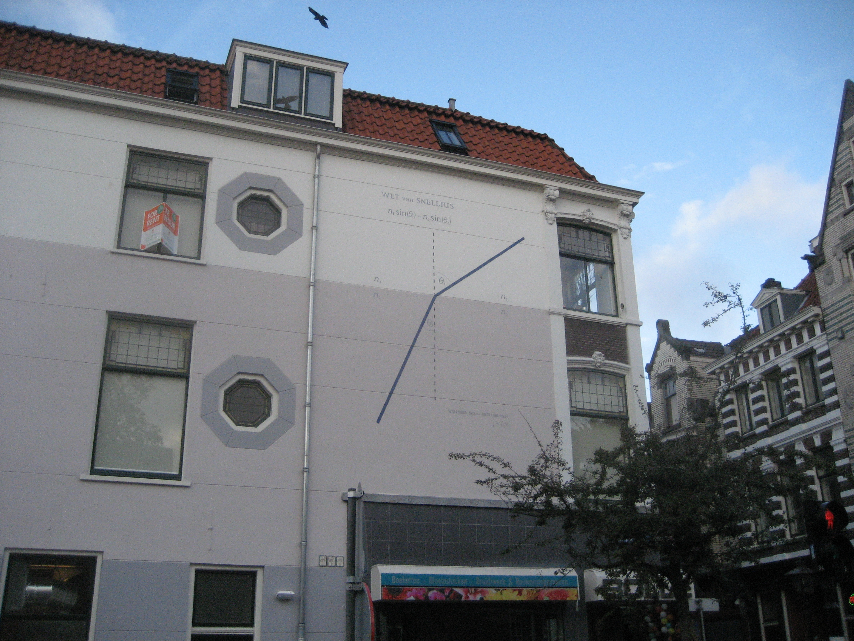 Refraction of light (Snell's law) painted on a wall in Leiden (the Netherlands), at the corner of Hogewoerd and Sint Jorissteeg. Formula: n 1 sin ⁡ θ 1 = n 2 sin ⁡ θ 2 . {\displaystyle n_{1}\sin \theta _{1}=n_{2}\sin \theta _{2}\ .}